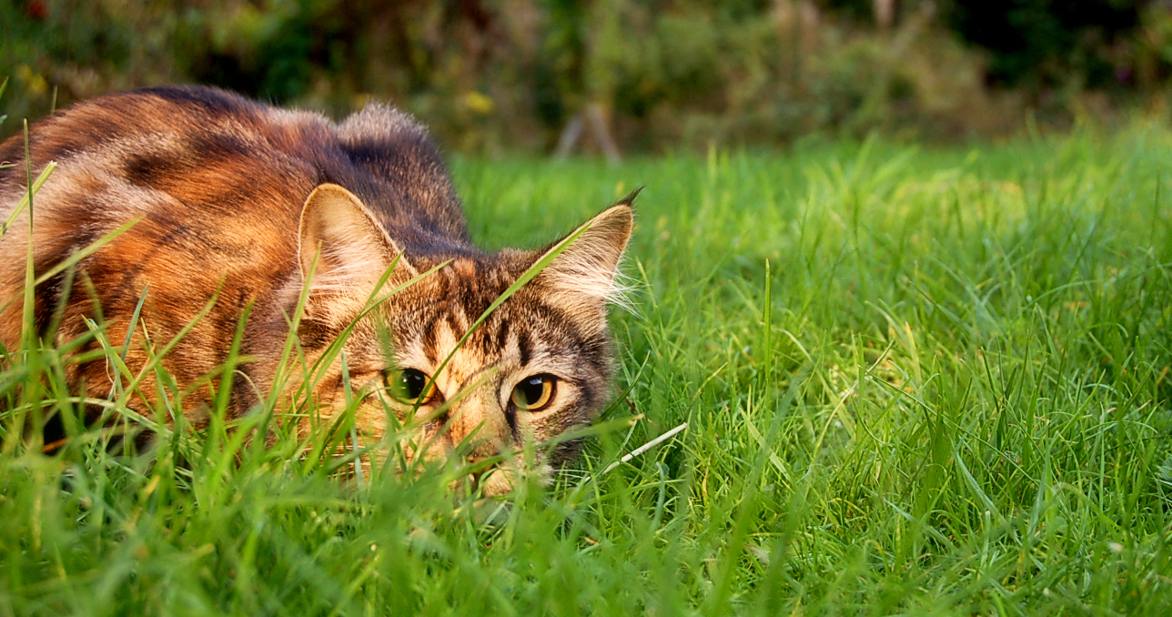 Cat stalking a prey